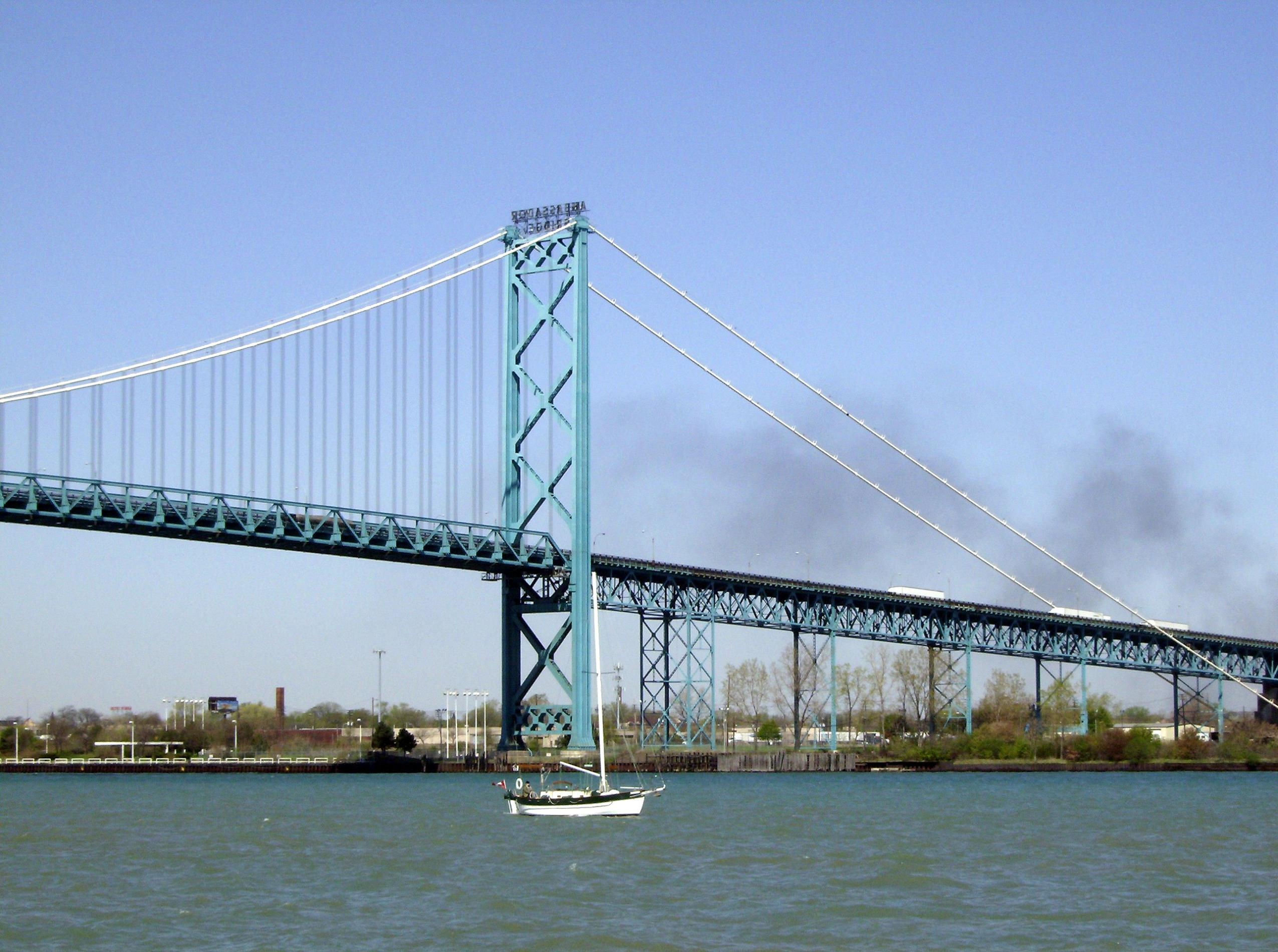 Ambassador Bridge